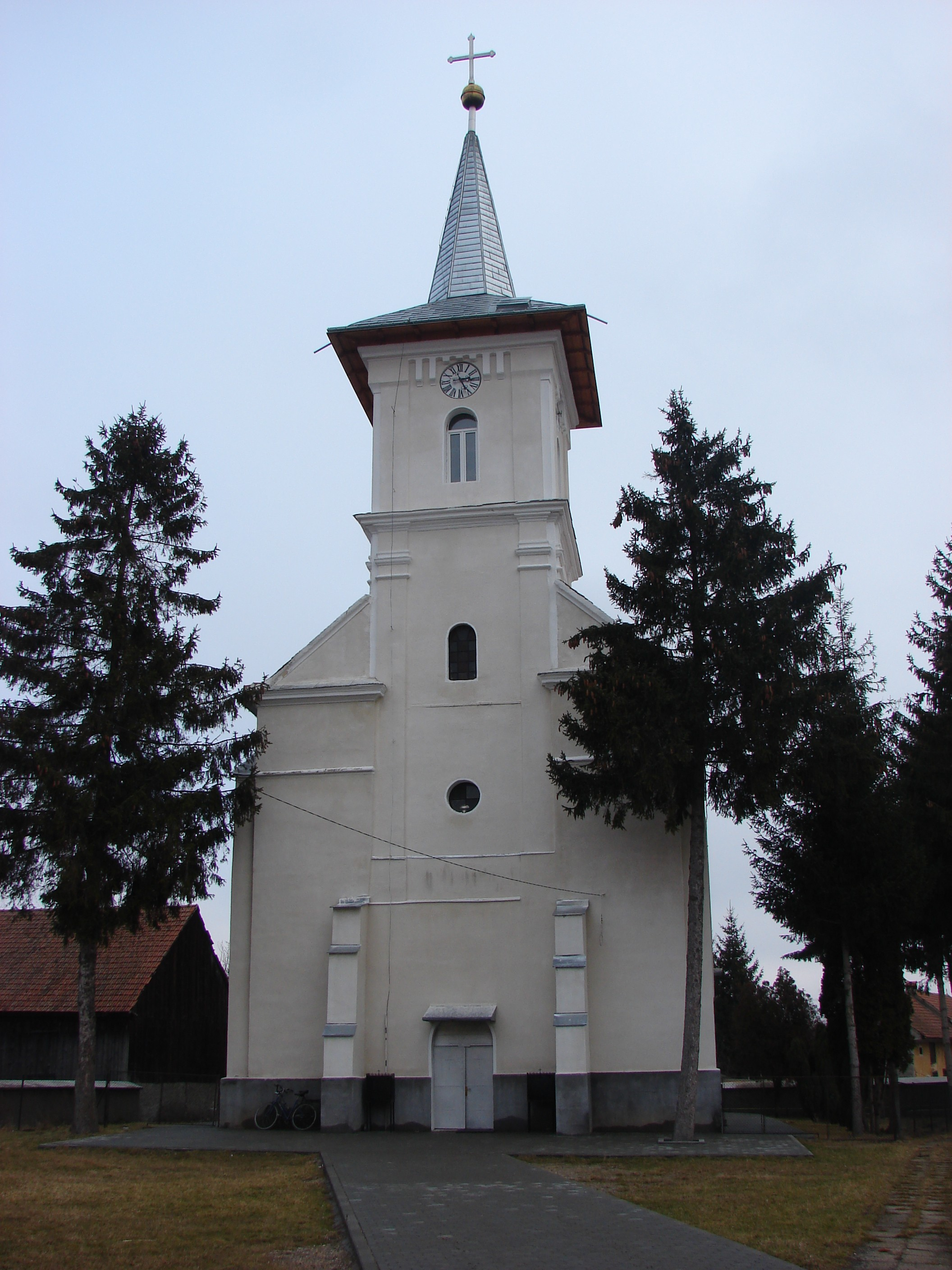 church in Vad, Braşov County, Romania